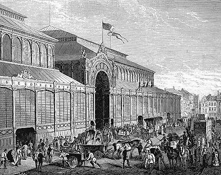 Centrale Hallen/Halles centrales (Brussels) after their opening. Wood engraving for Illustration européenne (ca 1874)